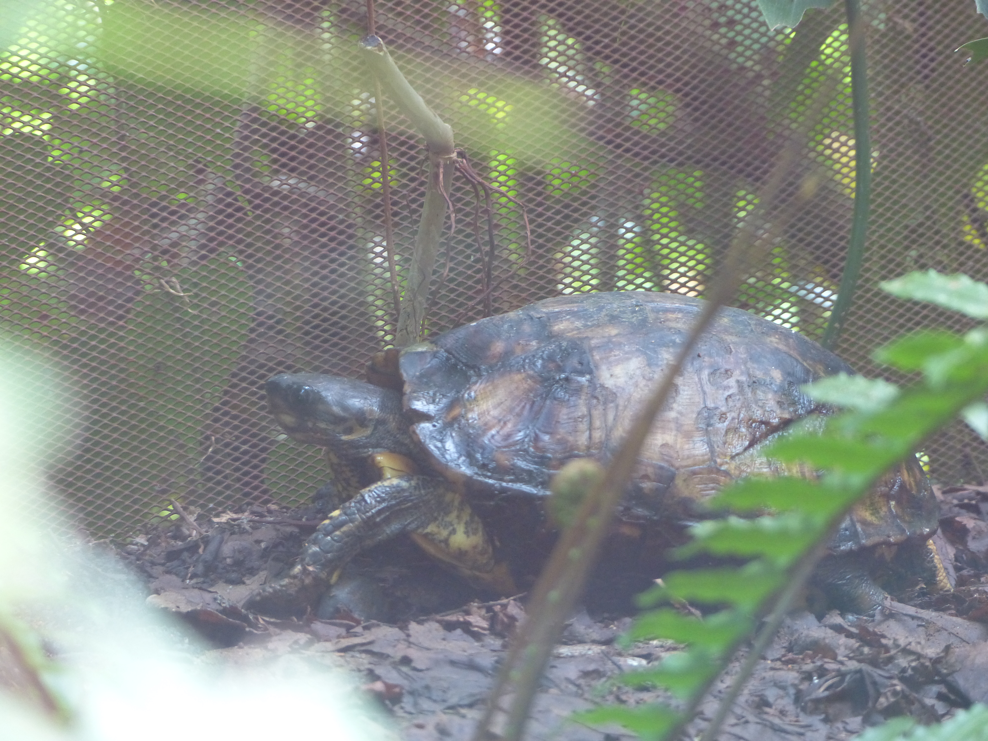 Rhinoclemmys annulata in captivity